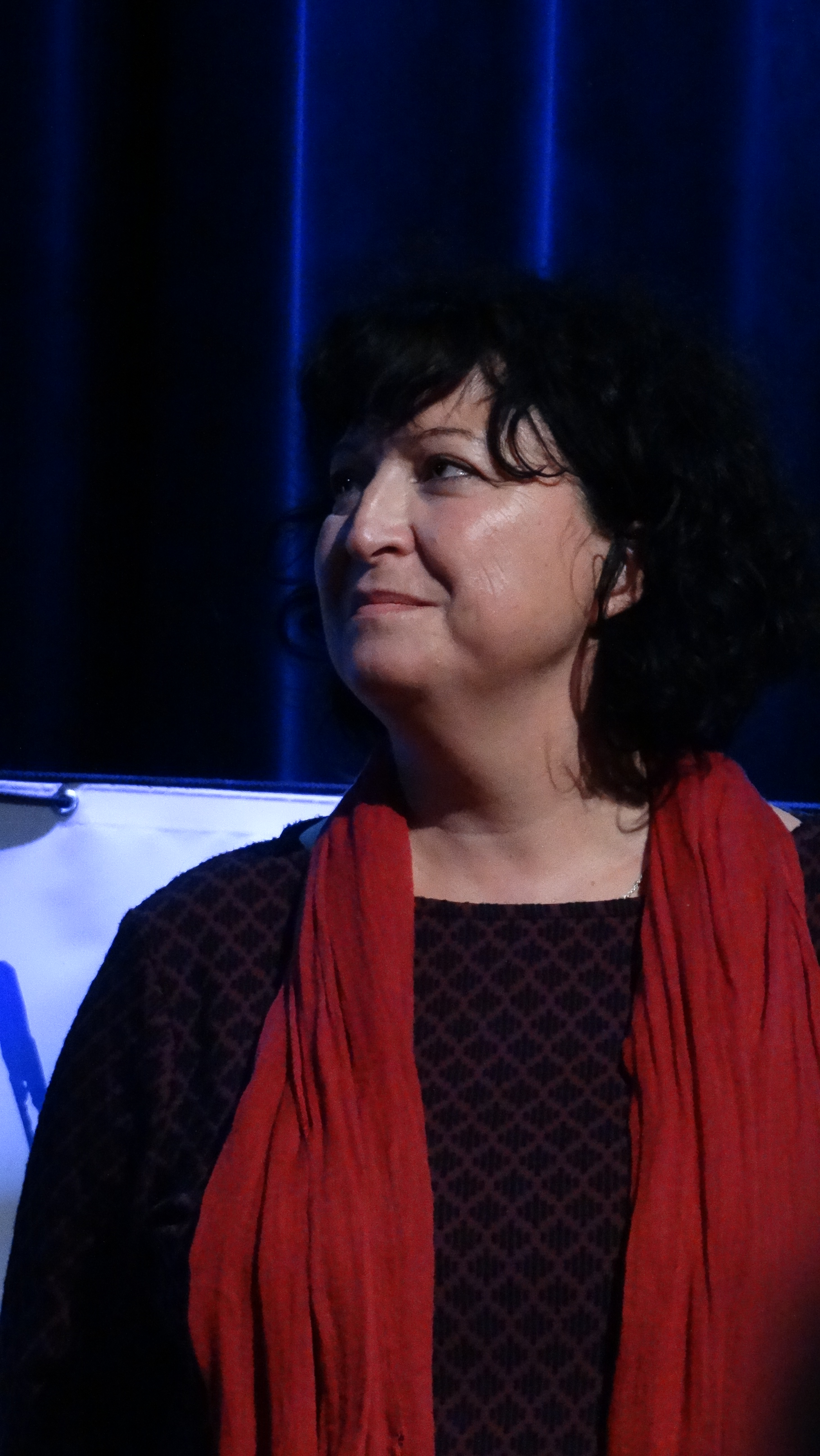 President of the French abolitionist organization le Mouvement du Nid, Christine Blec, at the international event "#MeToo & Prostitution: Survivors Break the Silence!" held on November 23rd, 2018, in the 2nd arrondissement of Paris.